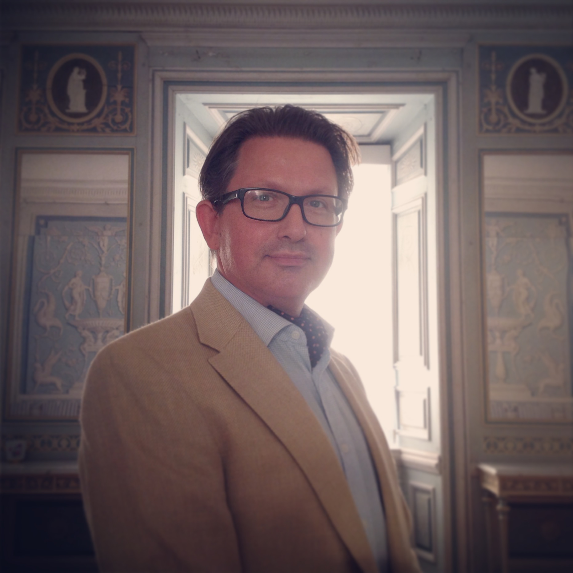 Arne Wiig standing in the Blue Hall of Salsta Slott